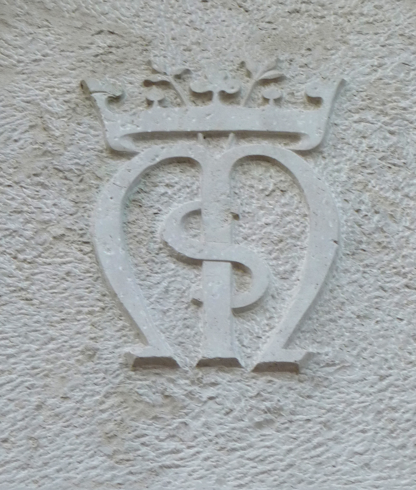 Monogram of the Servite Order in Santa Caterina's facade, Treviso (IT)